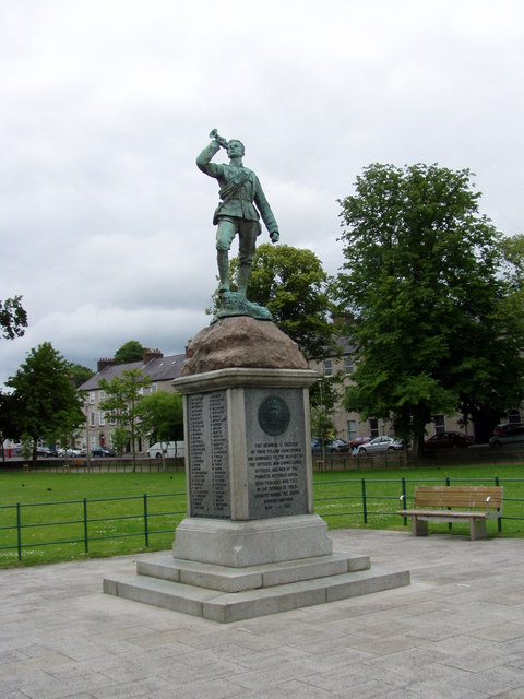 War Memorial to the Princess Victoria’s Royal Irish Fusiliers A memorial dedicated to the memory of the officers, noncommissioned officers and men of the Princess Victoria’s Royal Irish Fusiliers who fell in the service of their country during the South African Campaign 1899 - 1902. Beside this memorial is a cannon from the Crimean War.